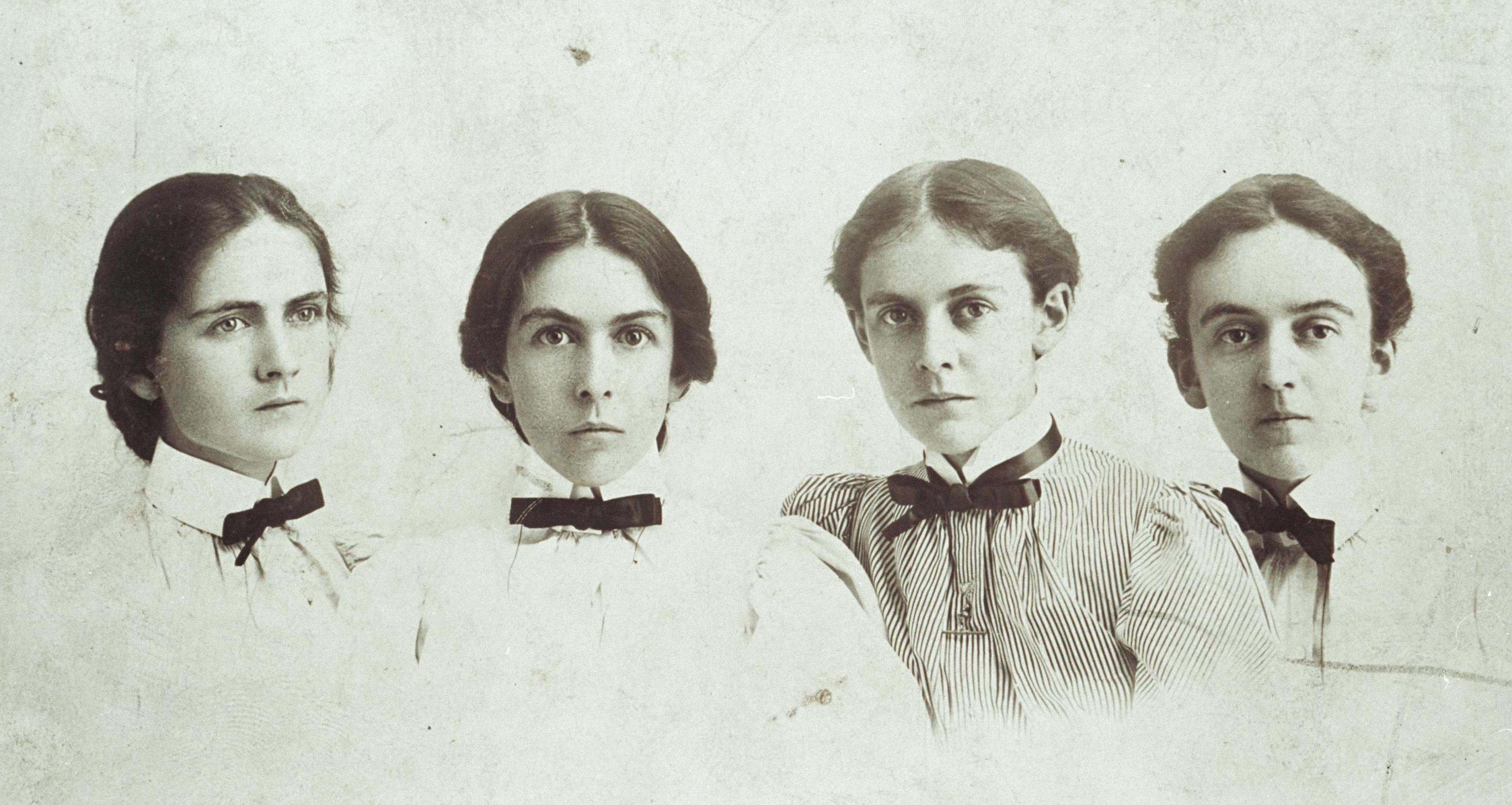 Four Hamilton sisters: Edith, Alice, Margaret and Norah, ca. 1890-1895.